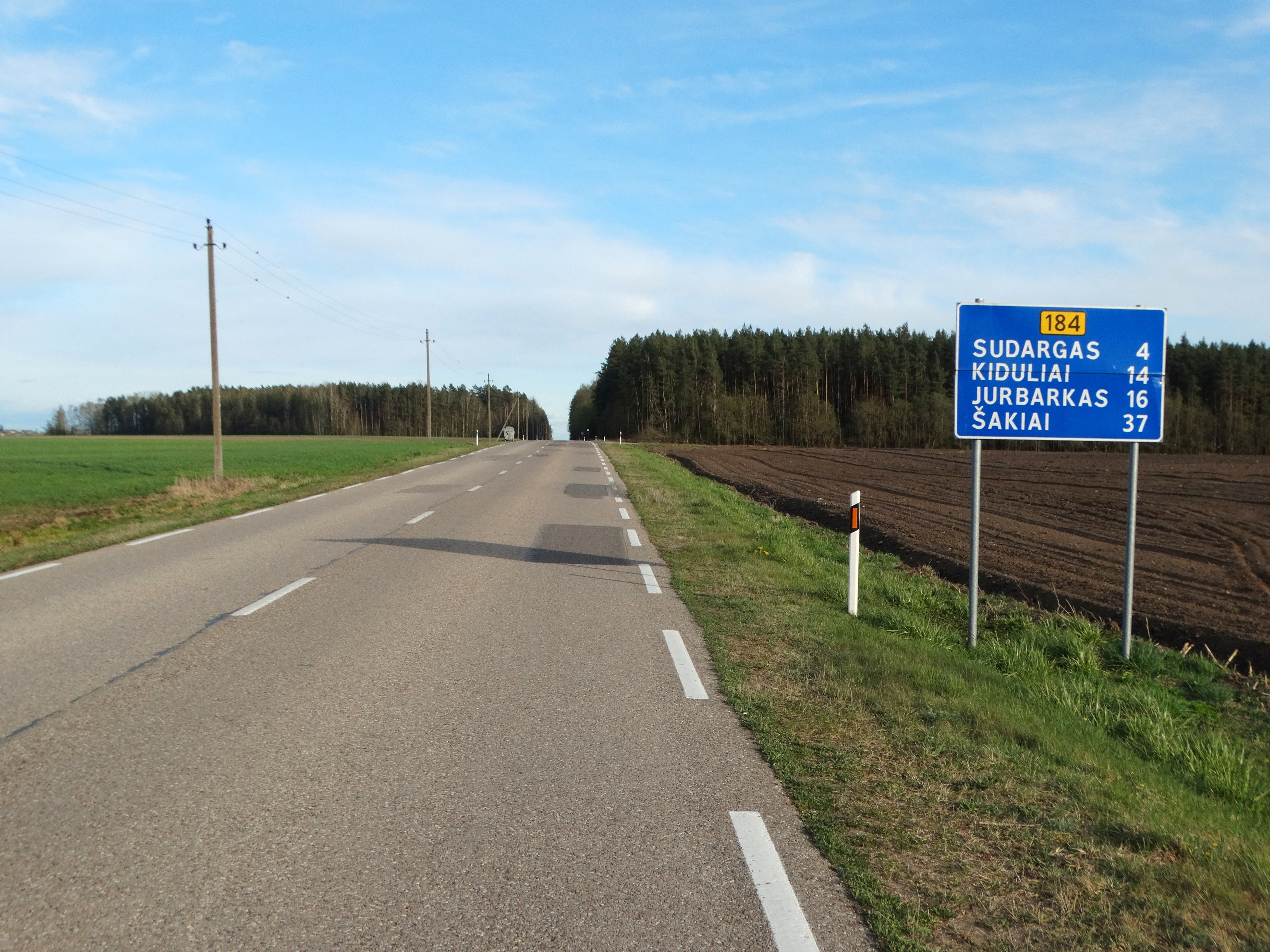 Road 184, , Lithuania